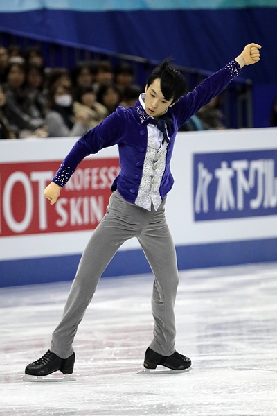 Photos – Grand Prix Final 2017 – Juniors – Men (Mitsuki SUMOTO JPN – Bronze Medal)